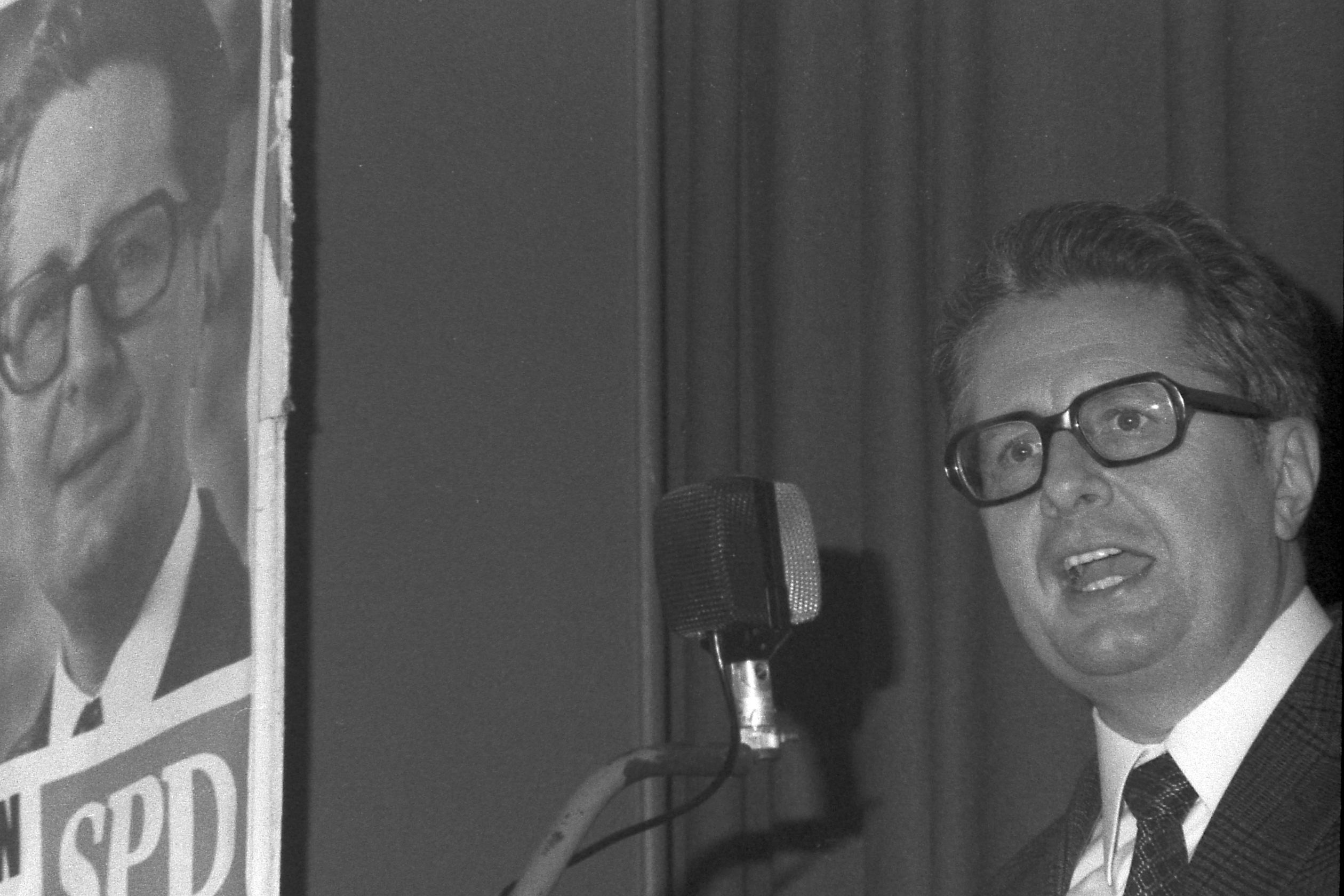 My beautiful picture